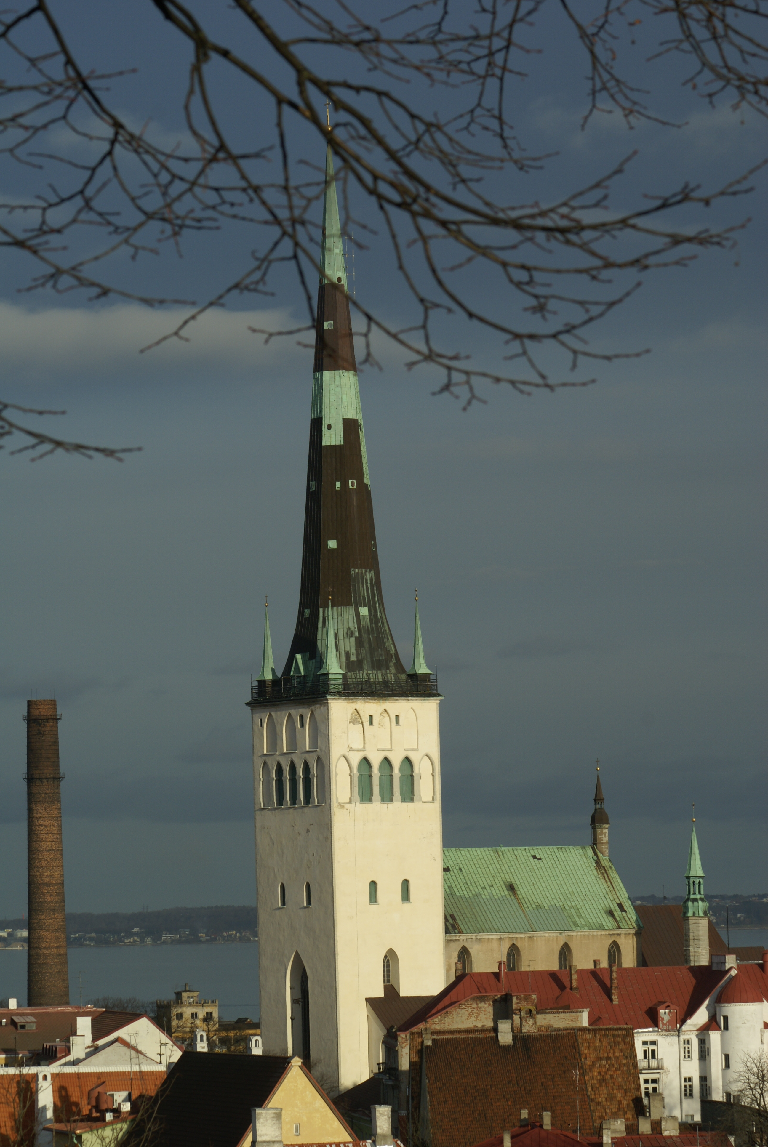 Tallinn, Saint Olav's Church